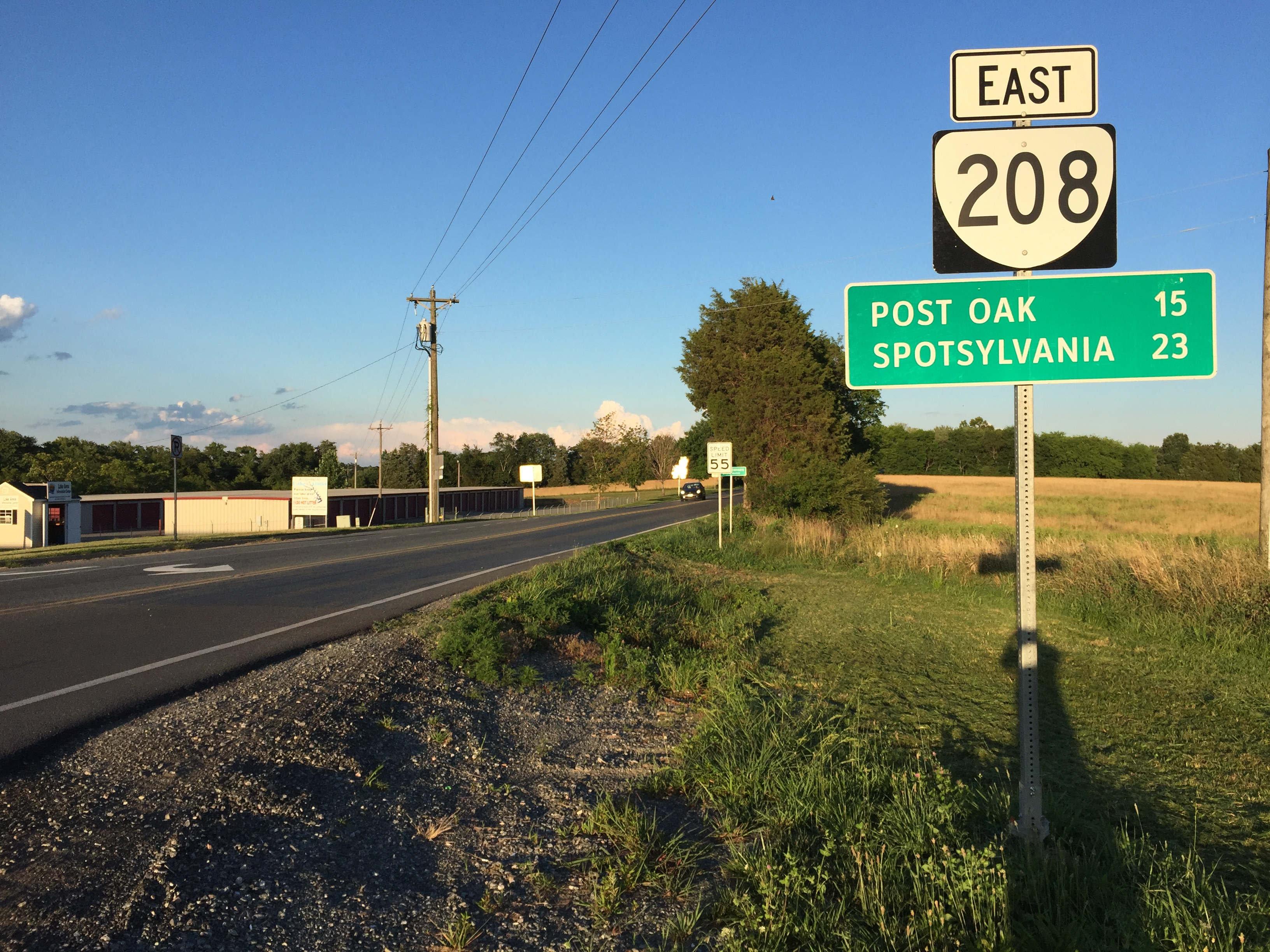 View east along Virginia State Route 208 (New Bridge Road) at U.S. Route 522 (Zachary Taylor Highway) in Wares Crossroads, Louisa County, Virginia